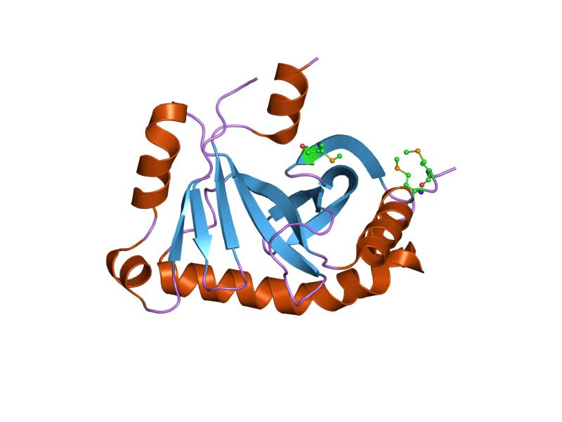 Cartoon representation of the molecular structure of protein registered with 1k4n code.